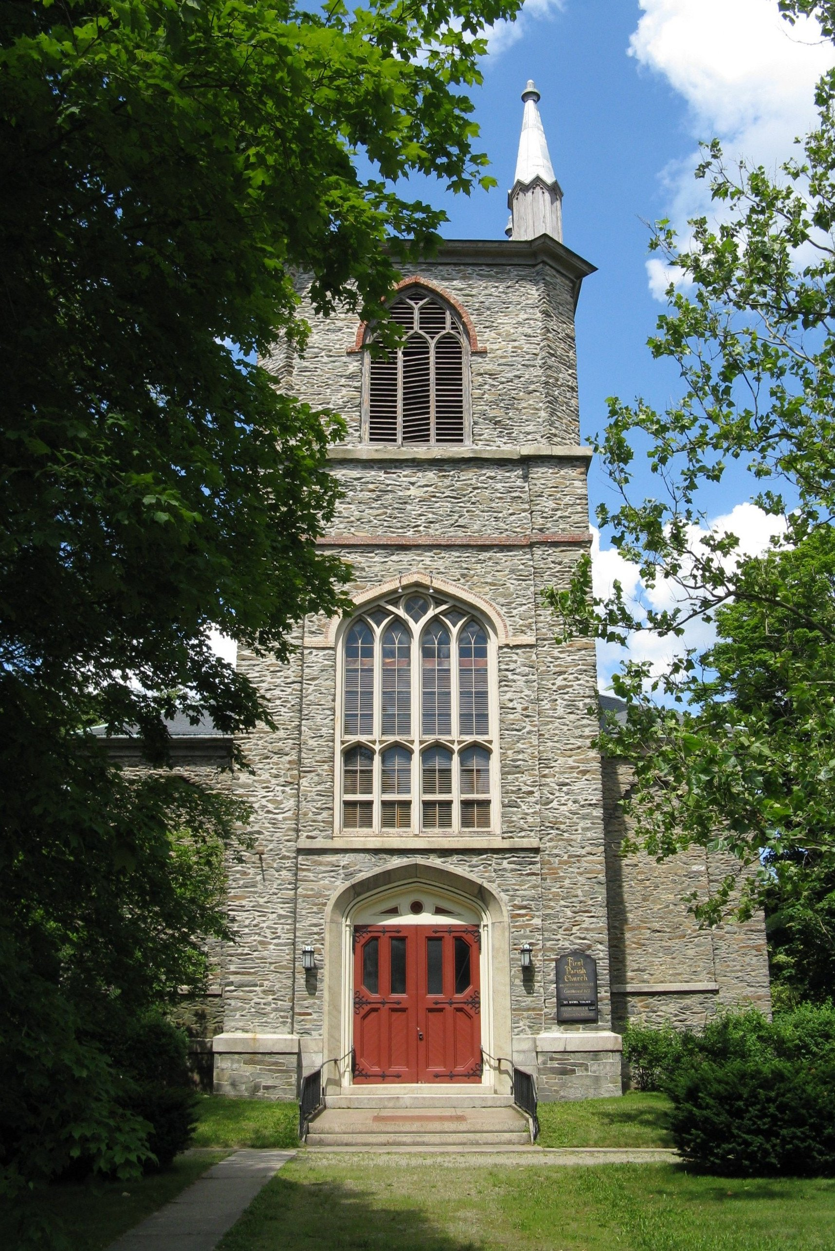 Church Green, Taunton Massachusetts